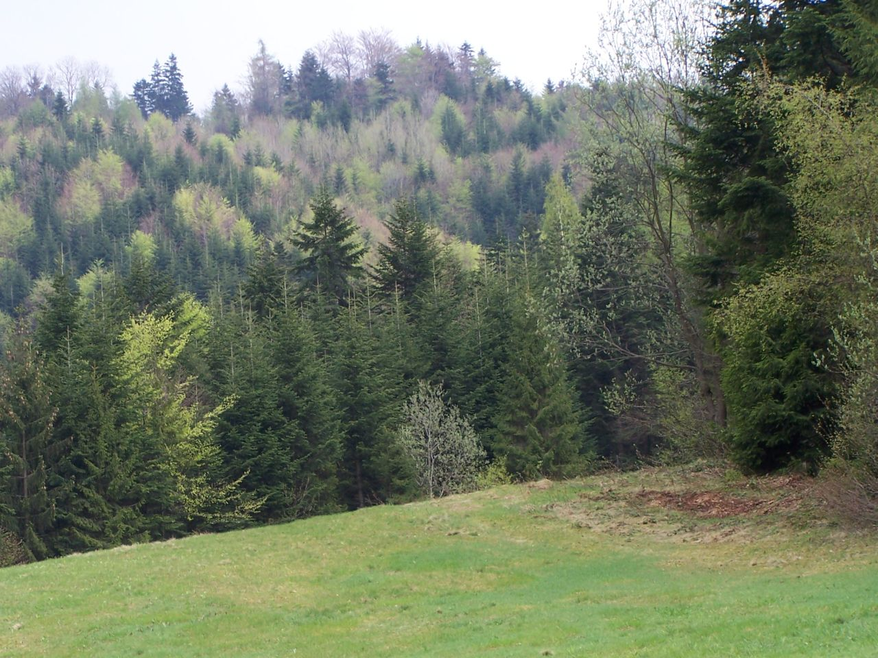 Mixed forest in Poland (spring)